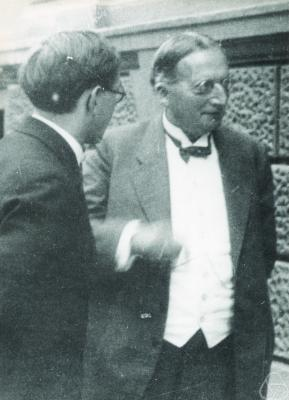 Mathematician Adolf Kneser in Prag, 1929.